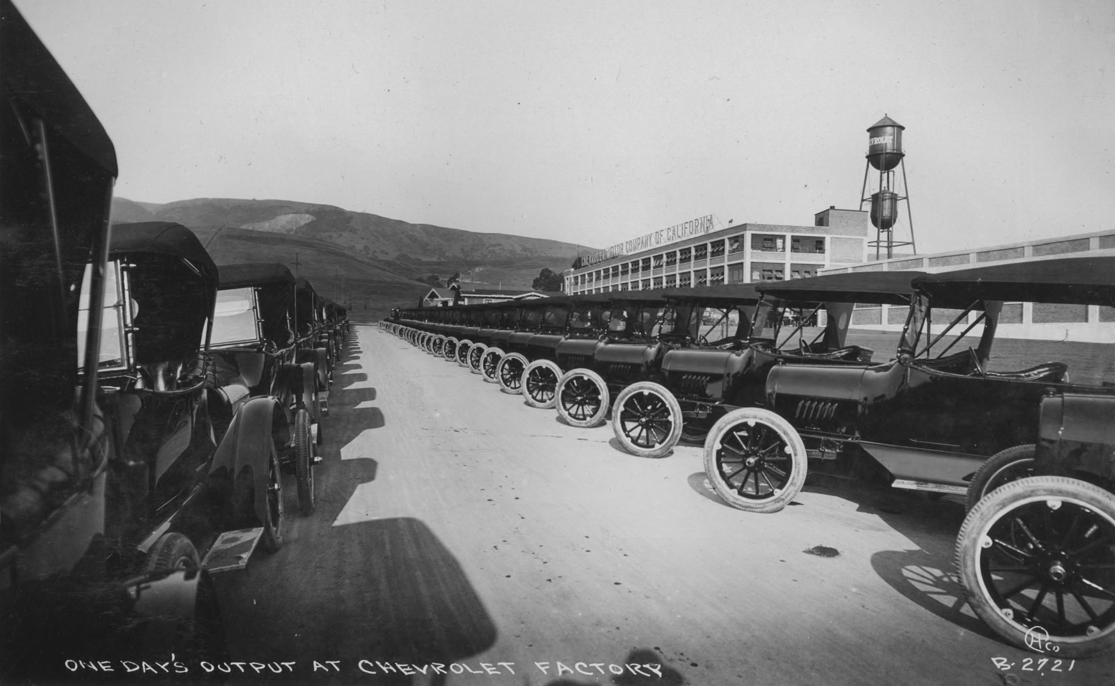 Promotional photograph of one day's output at the Chevrolet factory in Oakland, California, circa 1917. Photograph commissioned by Oakland Chamber of Commerce, Publicity Bureau. Photographer from Cheney Photo Advertising Co. Original photo part of Oakland Public Library, Oakland History Room. "Public domain. No restrictions on use."